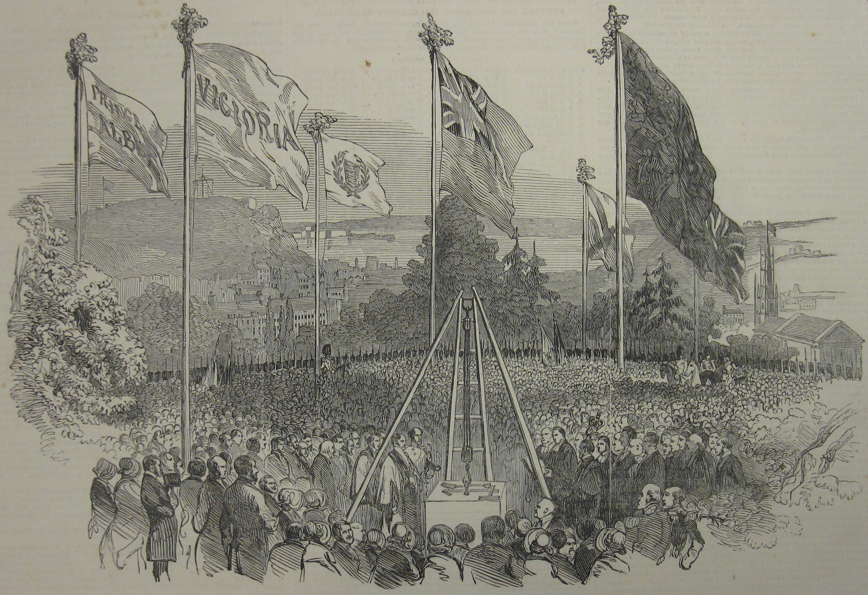 The laying of the foundation-stone of Victoria College, Jersey - Illustrated London News 1 June 1850